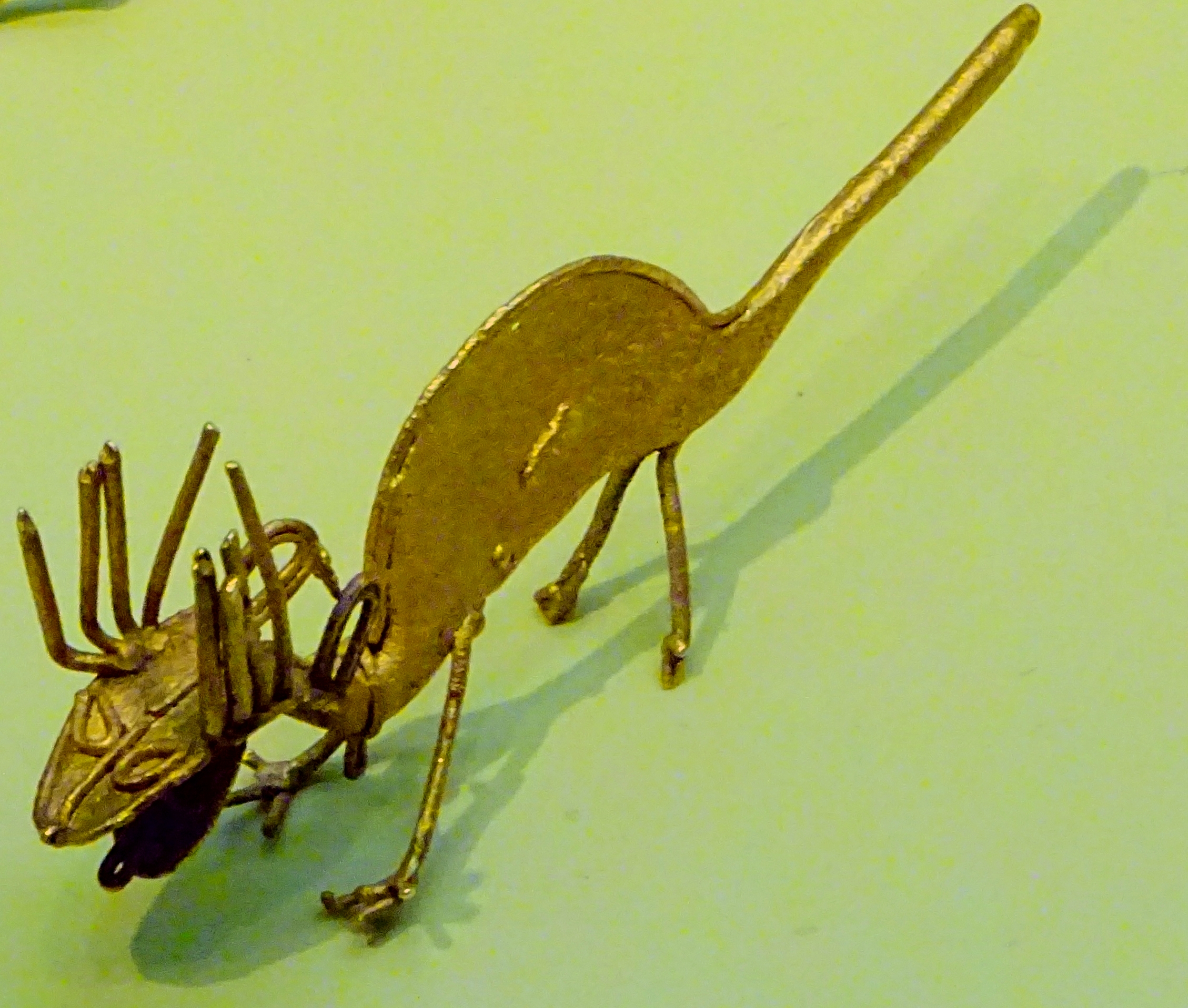 Zoomorph tunjo, Museo del Oro/Gold Museum, Bogotá, Colombia